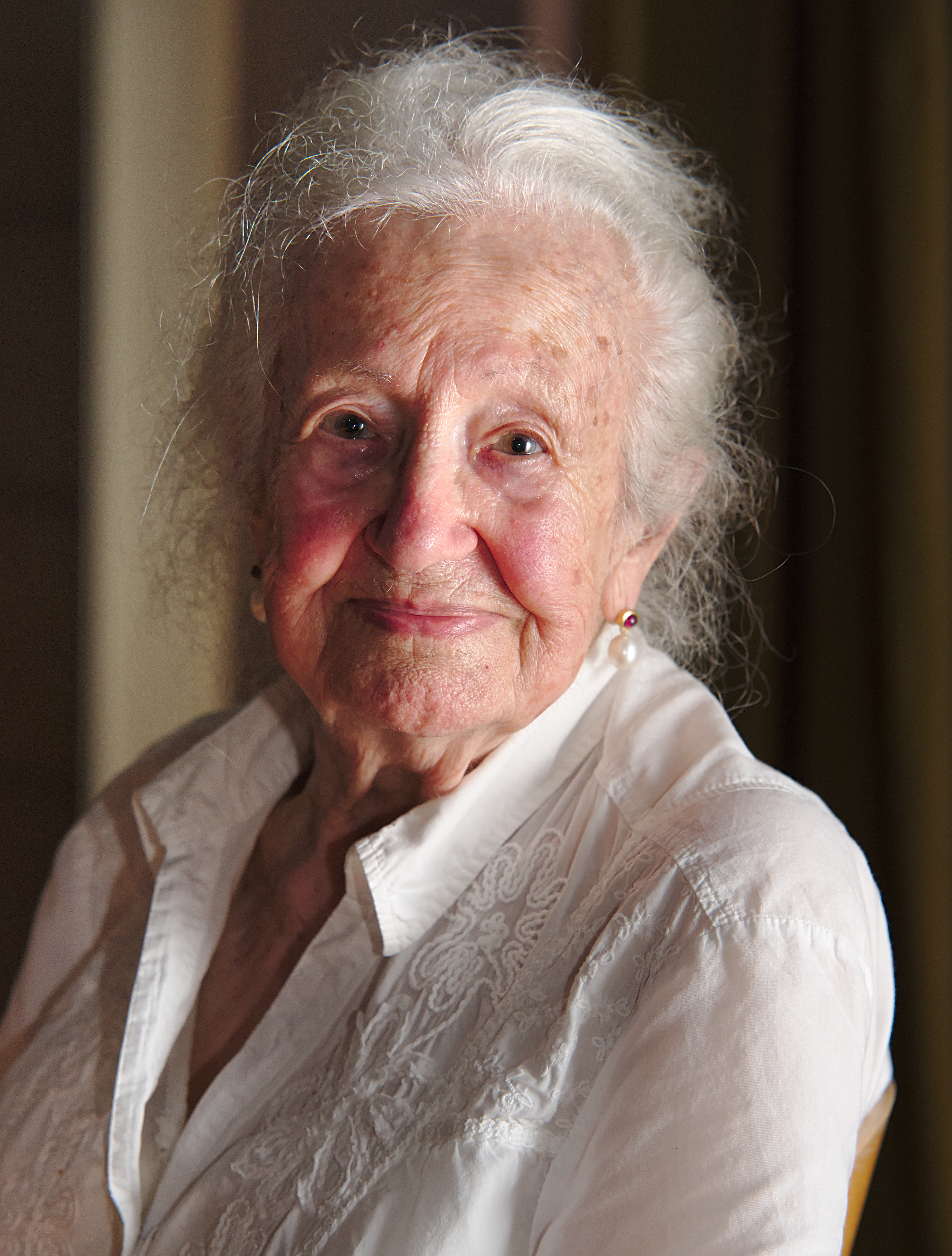 Erna de Vries, German holocaust survivor and contemporary witness. Photographed after a conversation with students on the occasion of a public screening of the documentary "I longed to see the sun once more" about her life. The image was taken at the auditorium of the University of Münster, Germany on May 30, 2018.